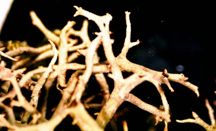 Cladonia furcata (Huds.) Schrad., 1794 (photograph of a herbarium specimen taken through a dissecting microscope (x12) showing the upper portions of podetia) Growing in an open area with dwarfed Picea rubens at Dolly Sods Wilderness Area, Monongahalea National Forest, West Virginia, USA; collected and identified by Elmer G. Worthley (No. LH-37, 13 Oct 1984); specimen is now in the Lichen Herbarium of the New York Botanical Garden.